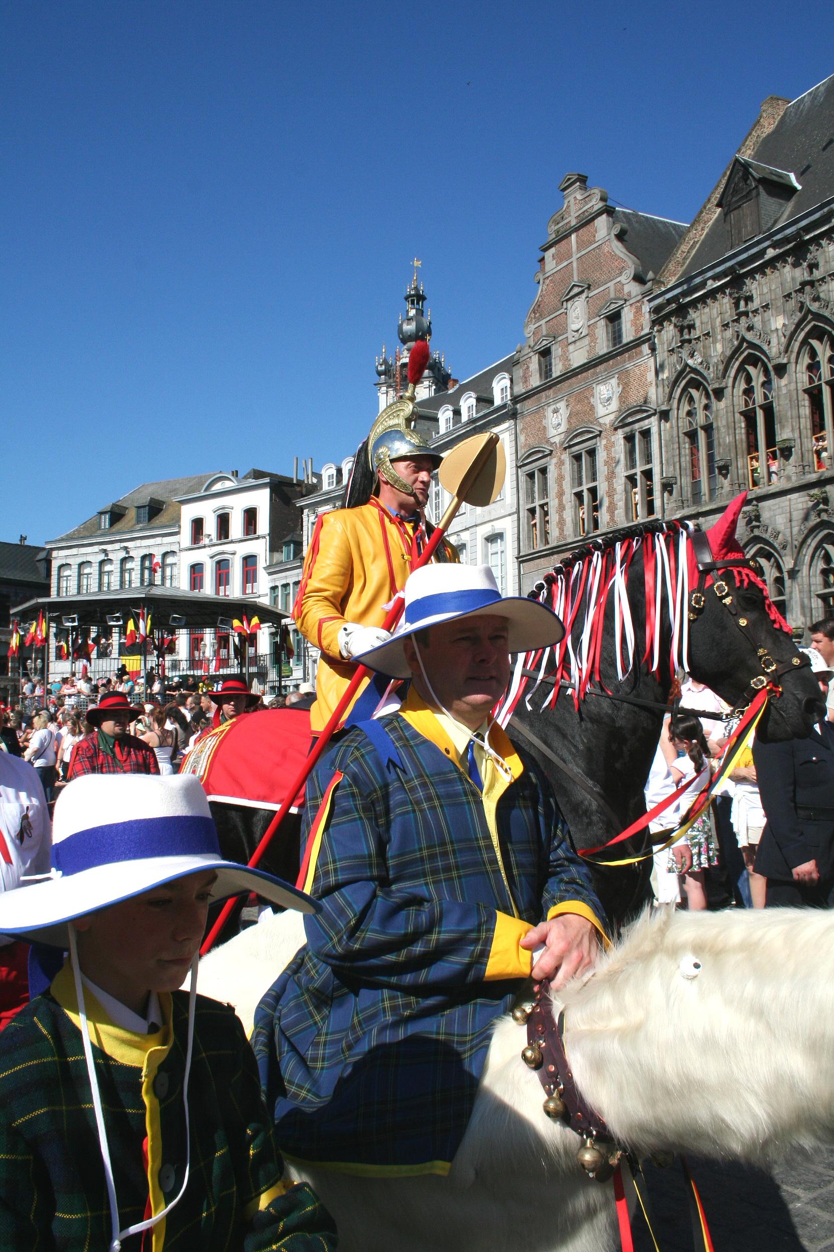 Mons (Belgium), St. George and the Chinchins in the procession of the Golden Car.